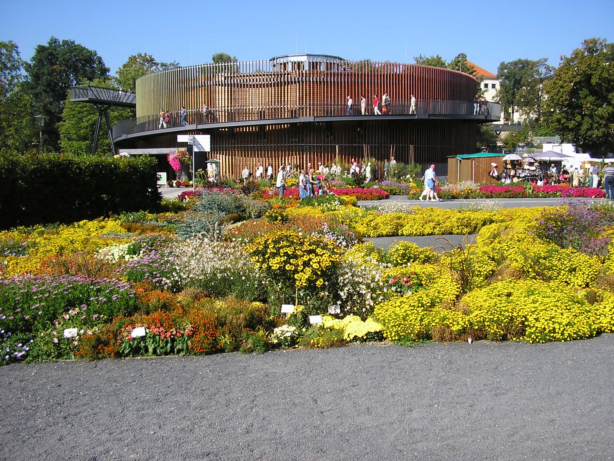 The state garden exhibition of Saxony by Oschatz